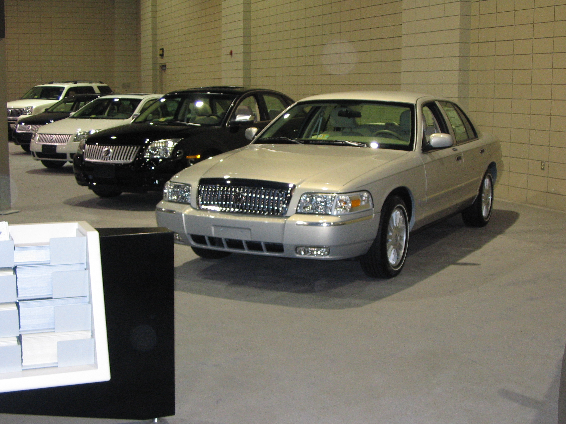 A photograph of the 2008 Mercury llineup. From foreground to background: Mercury Grand Marquis, Mercury Sable, Mercury Milan (two versions), and Mercury Mountaineer